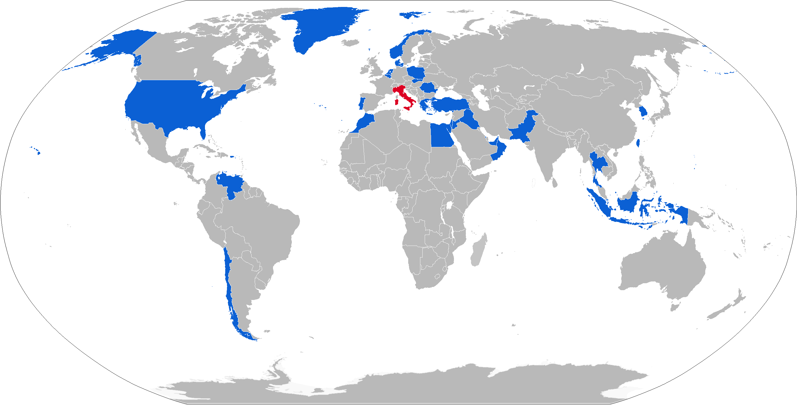 Map with F-16 operators in blue and former operators in red